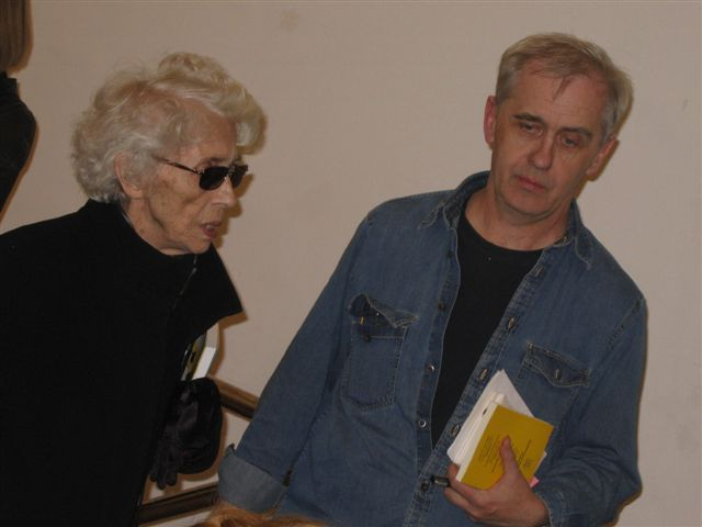 Teresa Dzieduszycka (Thérèse Douchy), Polish translator and Piotr Kłoczowski (b. 1949), Polish essayist and editor